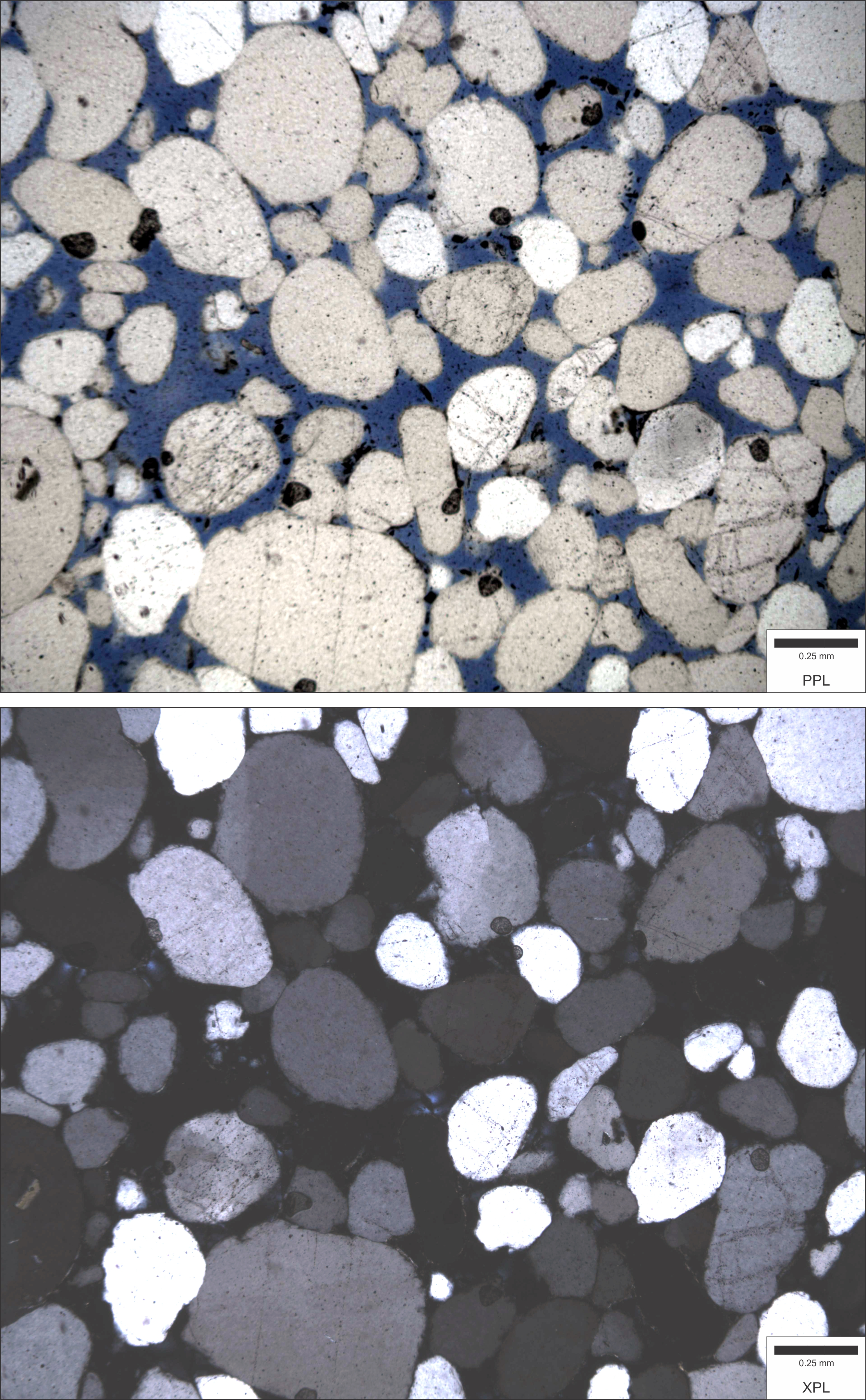 Photomicrograph of a quartz arenite (sandstone) from the St. Peter Formation (Ordovician) near Dixon, Illinois. Top image is in plane polarized light (PPL); bottom image is in cross polarized light (XPL). Blue epoxy fills pore spaces.